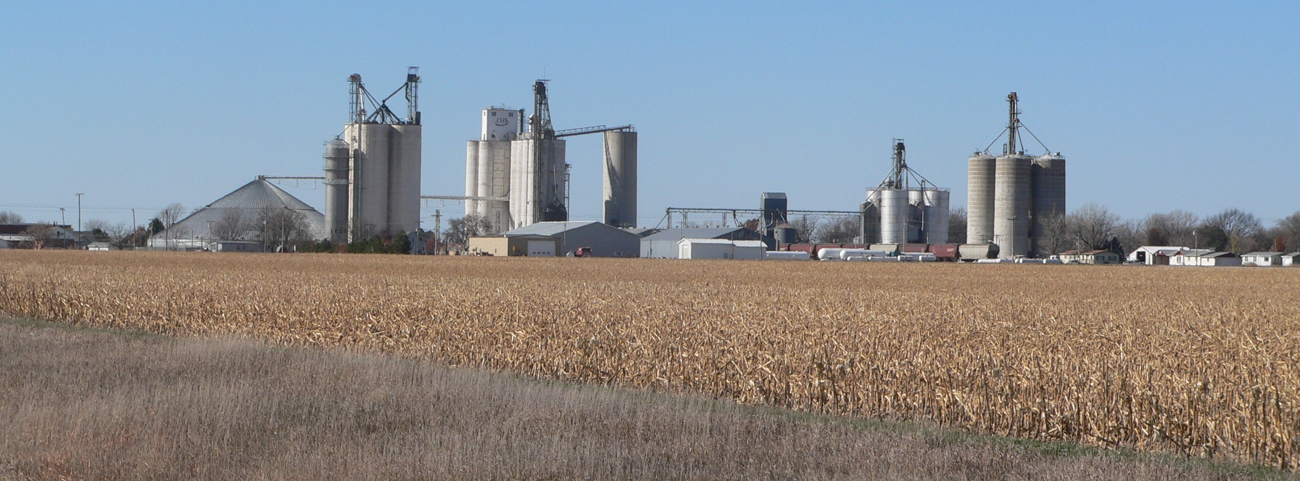 Roseland, Nebraska; seen from the southeast, from Nebraska Highway 74.